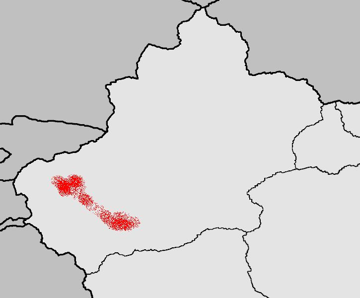 Map showing the location of Aini Speakers in Xinjiang